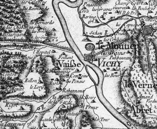 Vaisse (renamed Bellerive-sur-Allier in the beginning of XXe) on the Cassini map